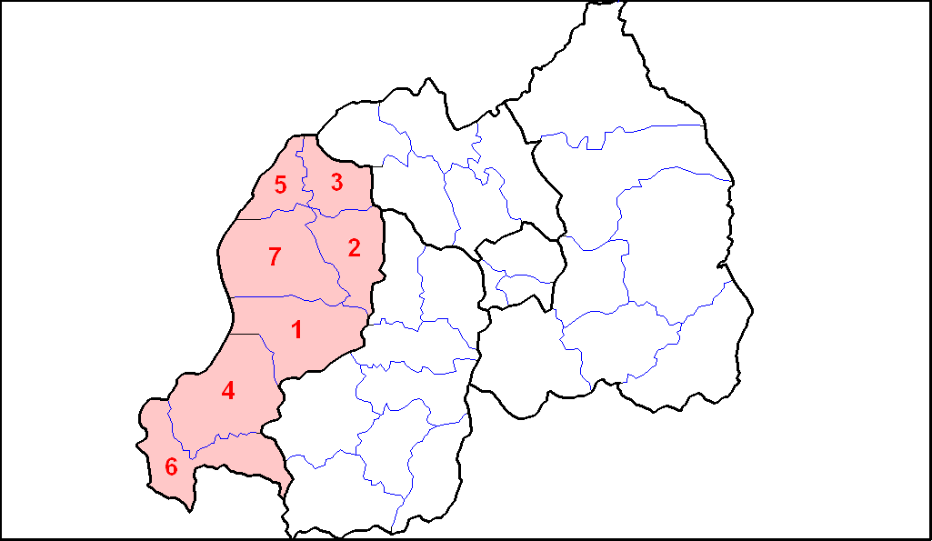 West Province, Rwanda with numbered districts